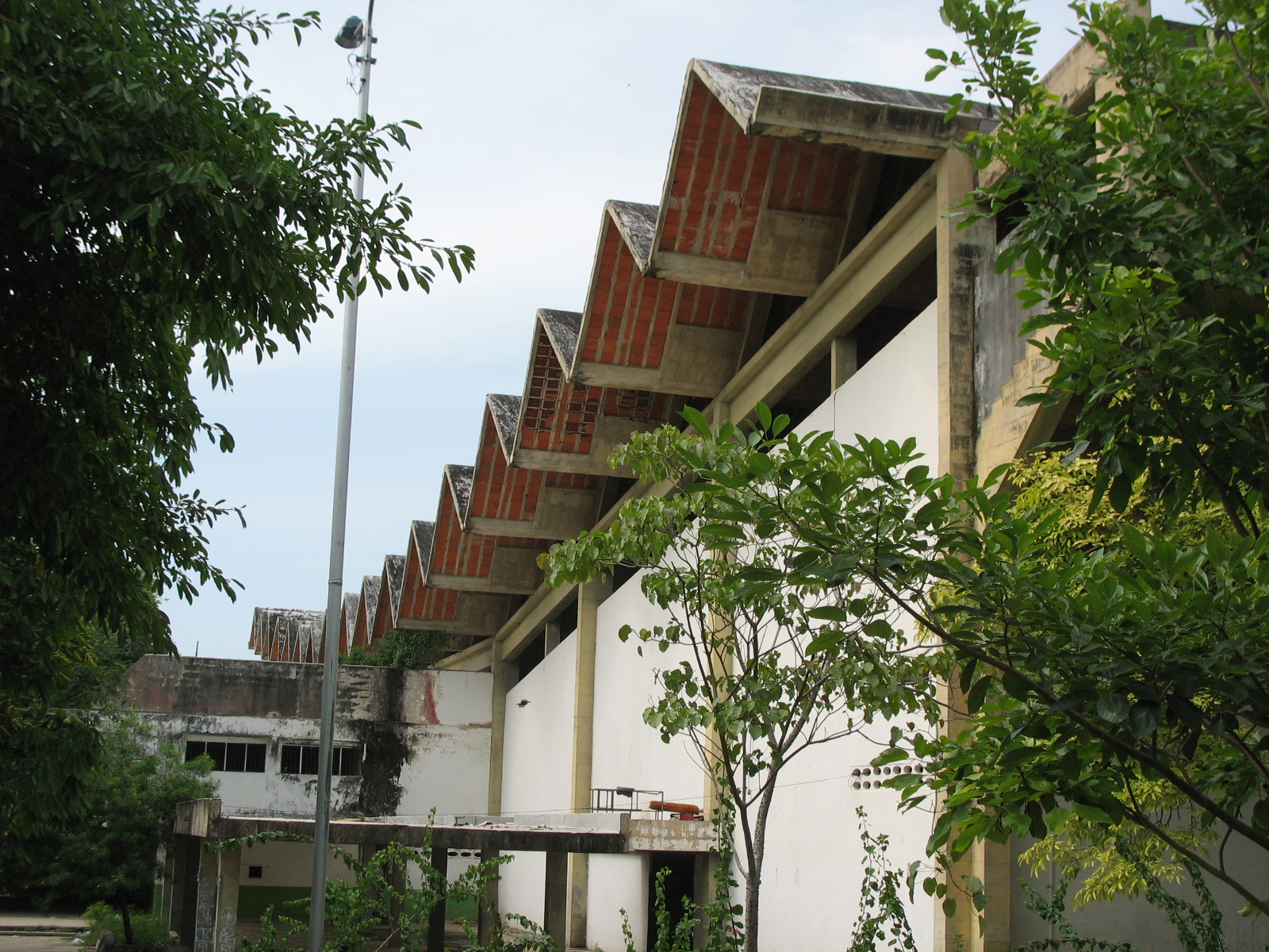 Barranquilla Coliseo Cubierto